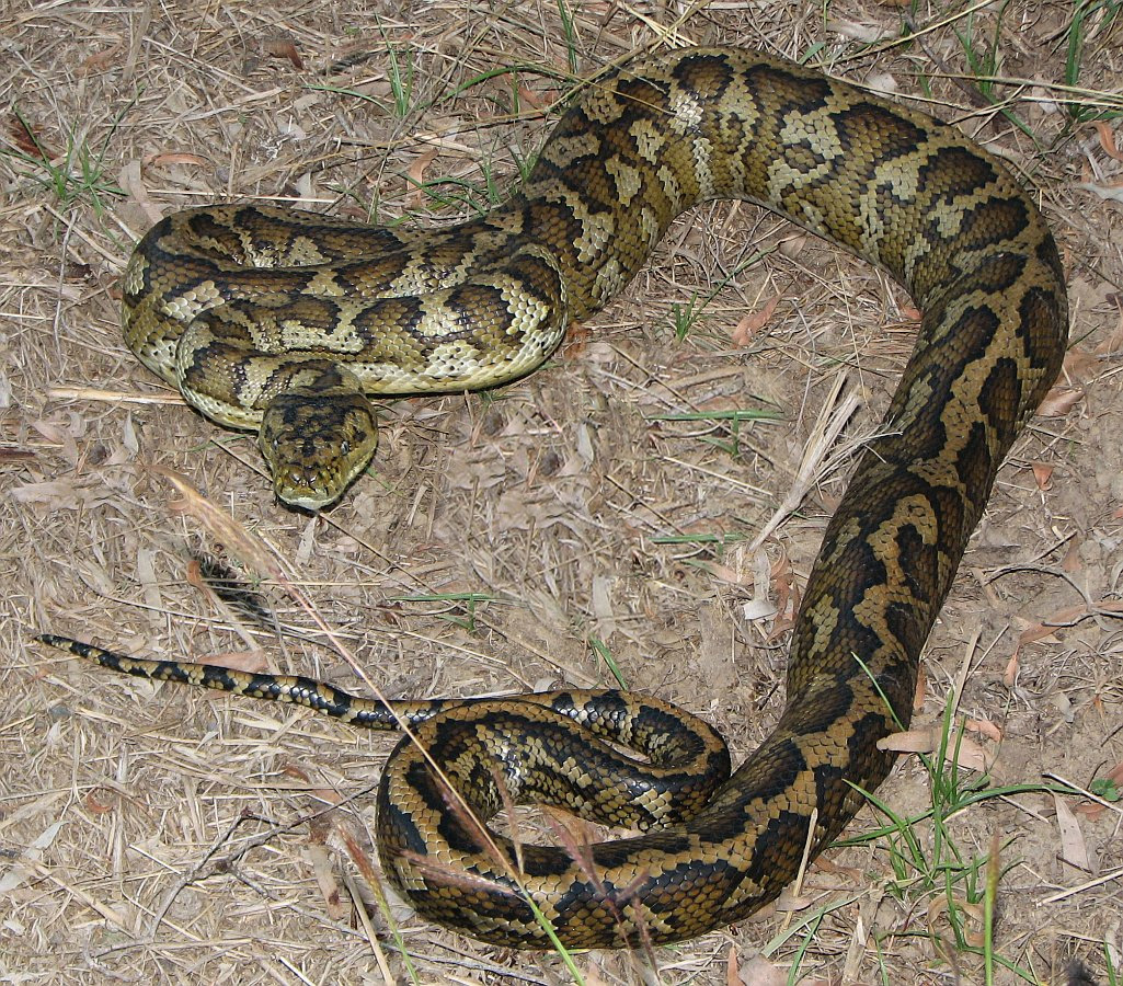 Australian Adult Coastal Carpet Python, a subspecies of Morelia spilota